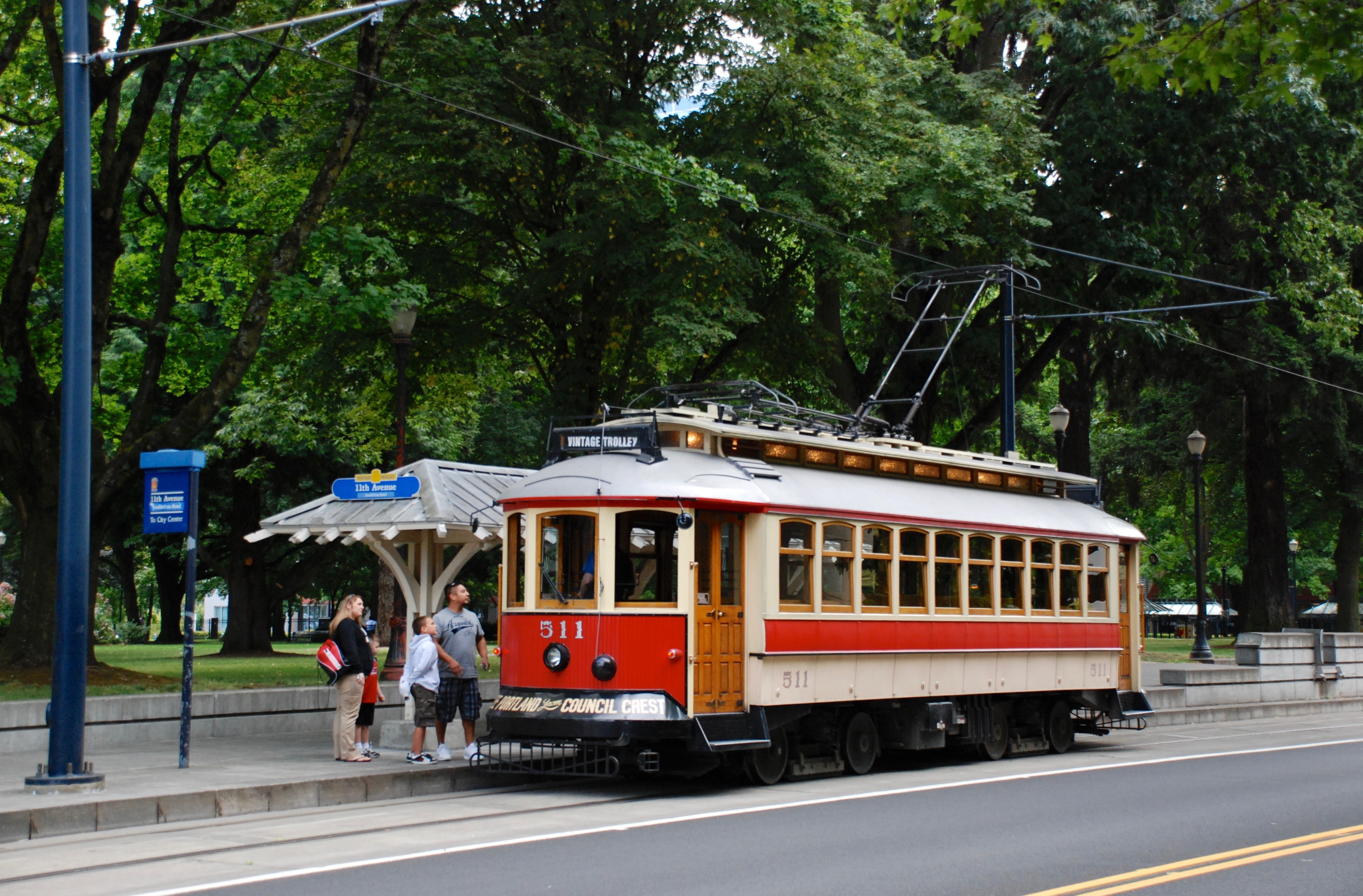 Portland Vintage Trolley car 511 at the line's Lloyd Center terminal, just south of Multnomah Street on the single-track, VT-only spur on NE 11th Avenue, in 2009. This was the eastern terminus of all Vintage Trolley service from 1991 until August 23, 2009 (the date of this photo), after which time the VT route was moved (effective Sep. 13, 2009) to the Portland Transit Mall and the VT cars only made two trips to this location per operating day, both being unpublicized (and non-passenger) trips made for operations-efficiency purposes. The "vintage" trolleys were 1991-built replicas of 1903/04 Brill cars that served Portland's Council Crest line from 1904 to 1950. Portland Vintage Trolley service ended altogether in July 2014.